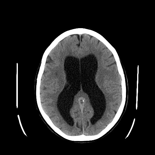 Ct-scan of the brain with hydrocephalus